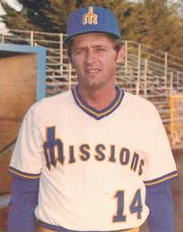 Professional baseball player Tom Brown